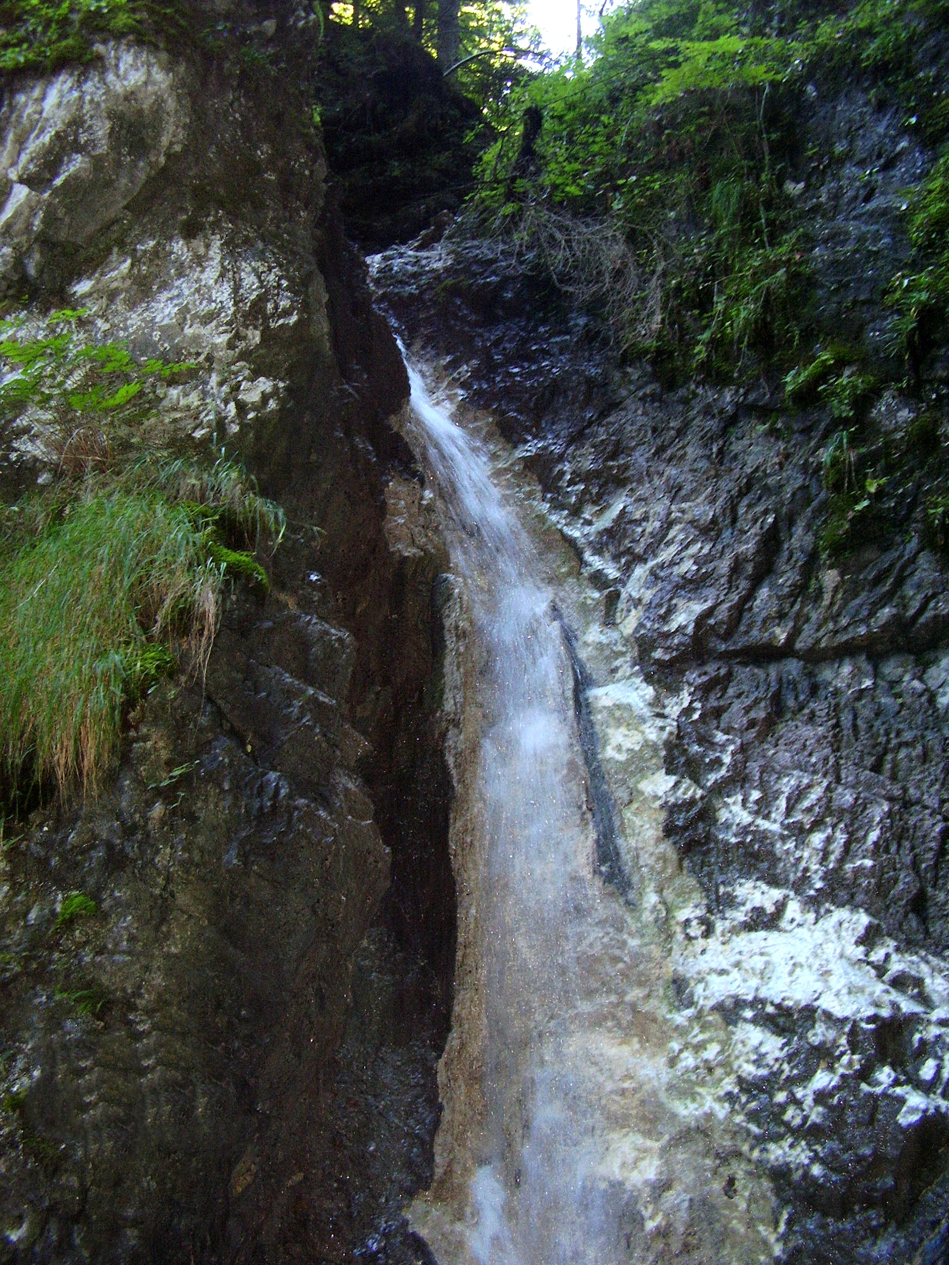 Waterfall in Veľký Kyseľ canyon, Slovak Paradise National Park, Slovakia.